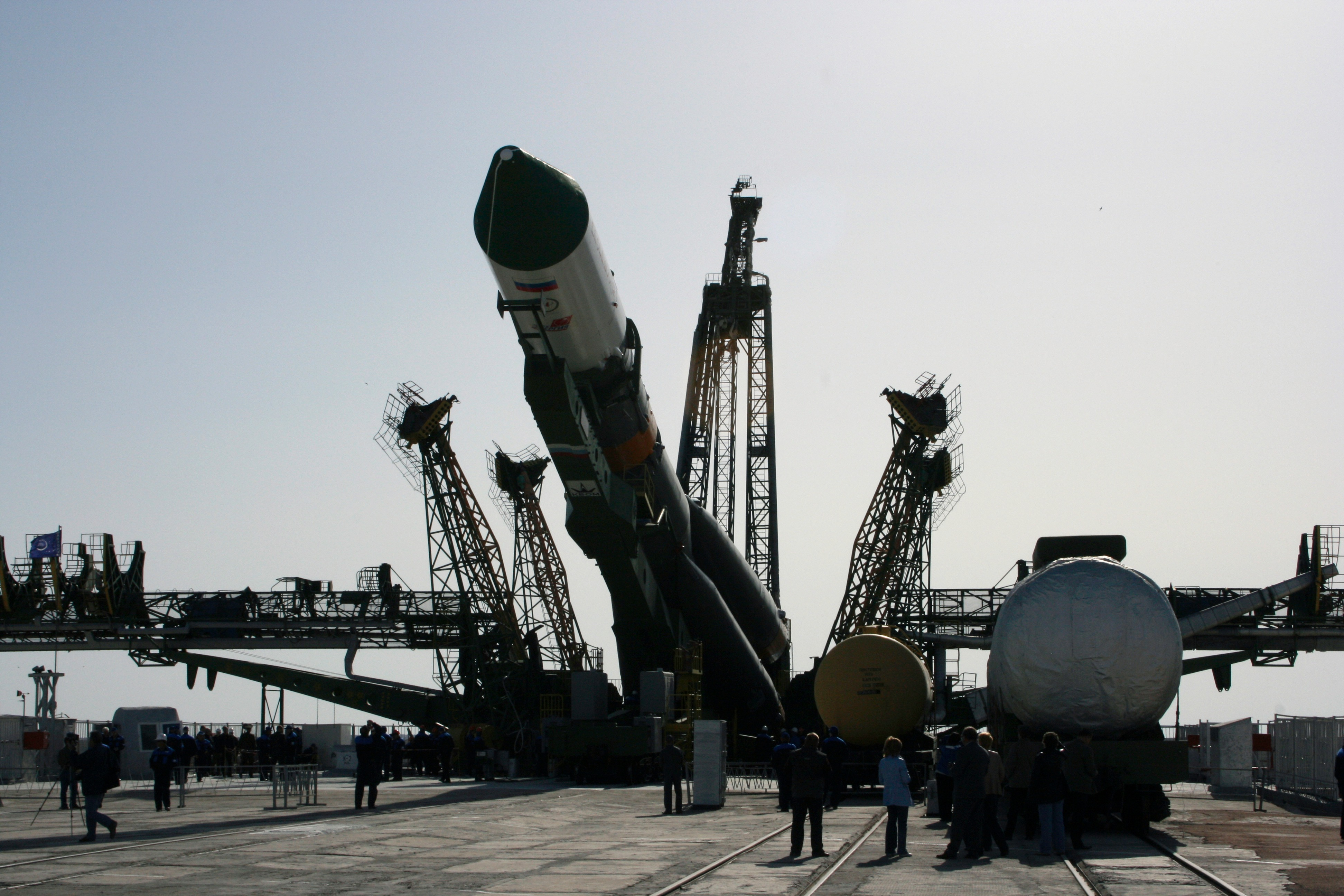 JSC2007-E-22717 (10 May 2007) --- A scene near the launch pad following the Progress 25 rollout at dawn today at the Baikonur Cosmodrome in Kazakhstan.